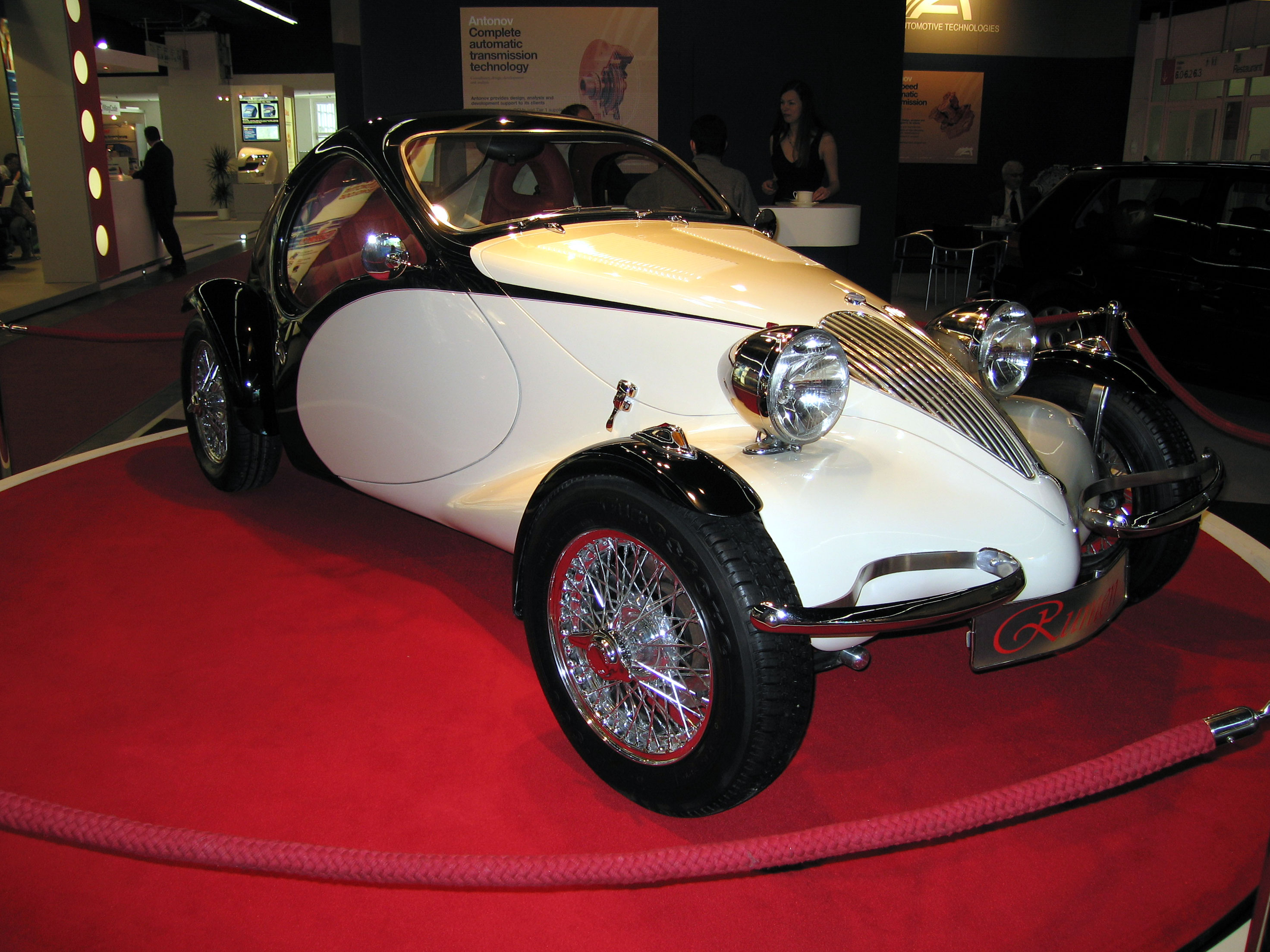 Rumen prototype by Roumen Antonov at the IAA 2005